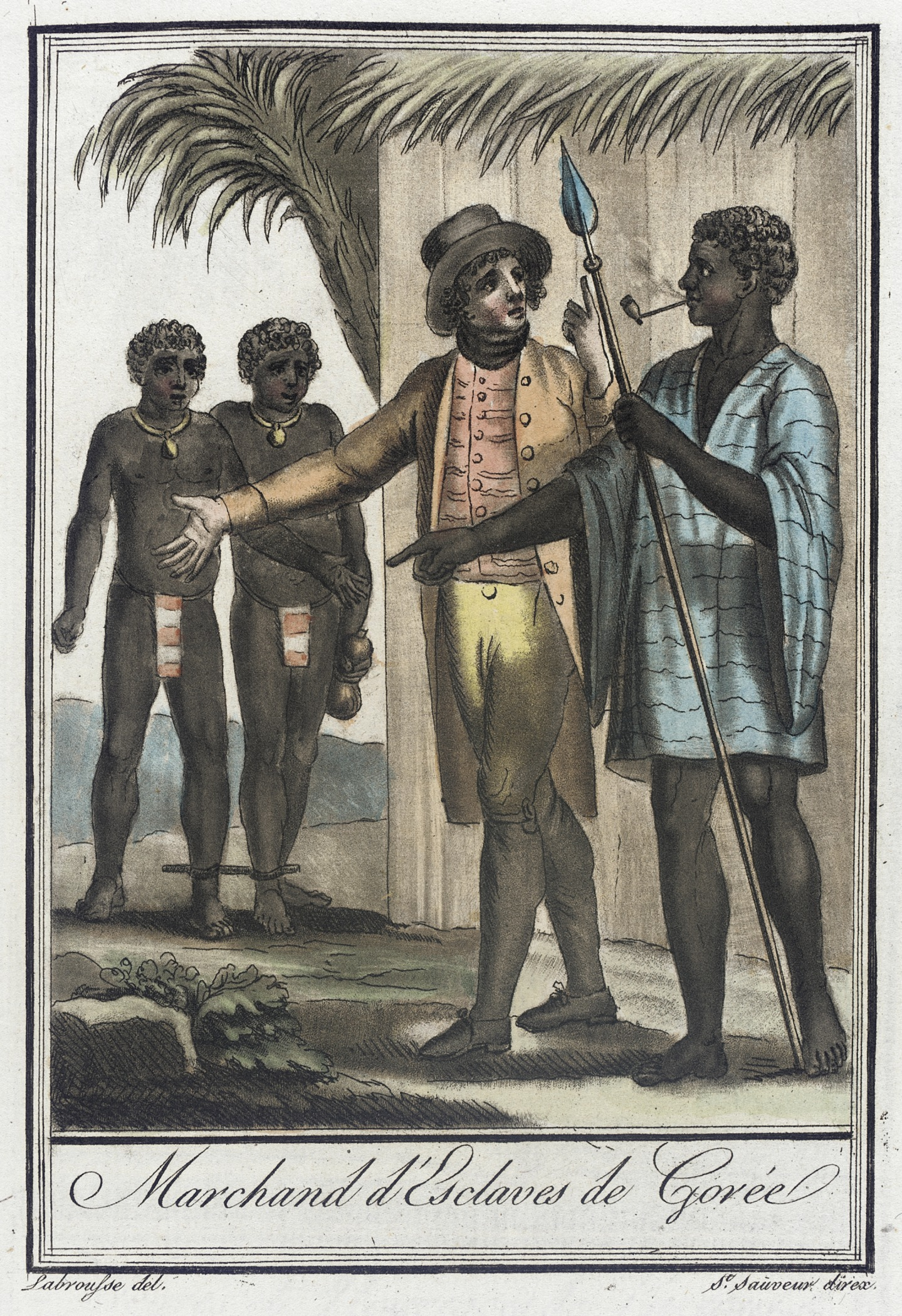 France, circa 1797 Prints; engravings Hand-tinted engraving on paper Sheet: 10 3/8 x 7 3/4 in. (26.35 x 19.69 cm); Composition: 7 5/8 x 5 1/2 in. (19.37 x 13.97 cm) Costume Council Fund (M.83.190.334) Costume and Textiles